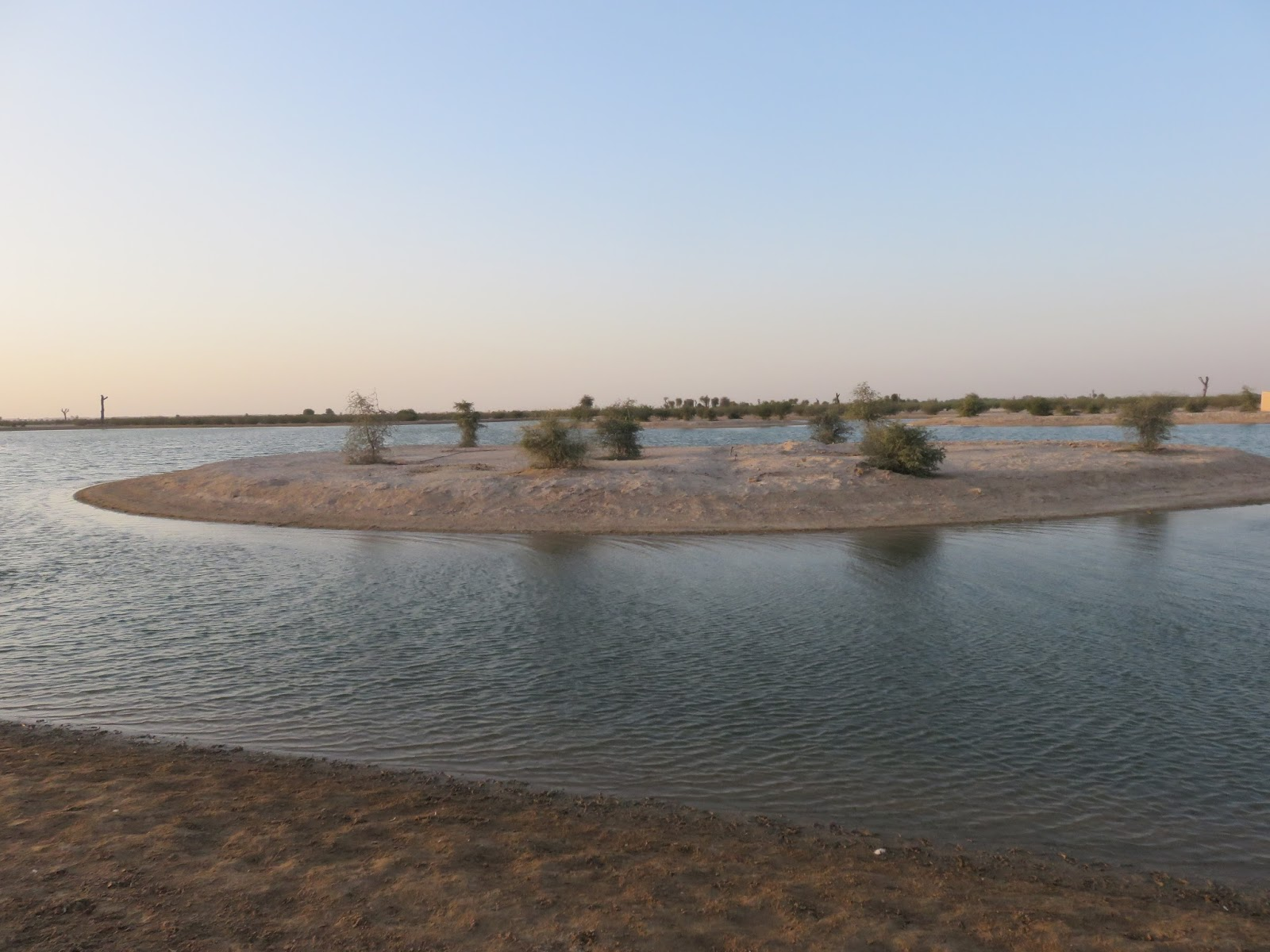 Al Qudra lake in Dubai